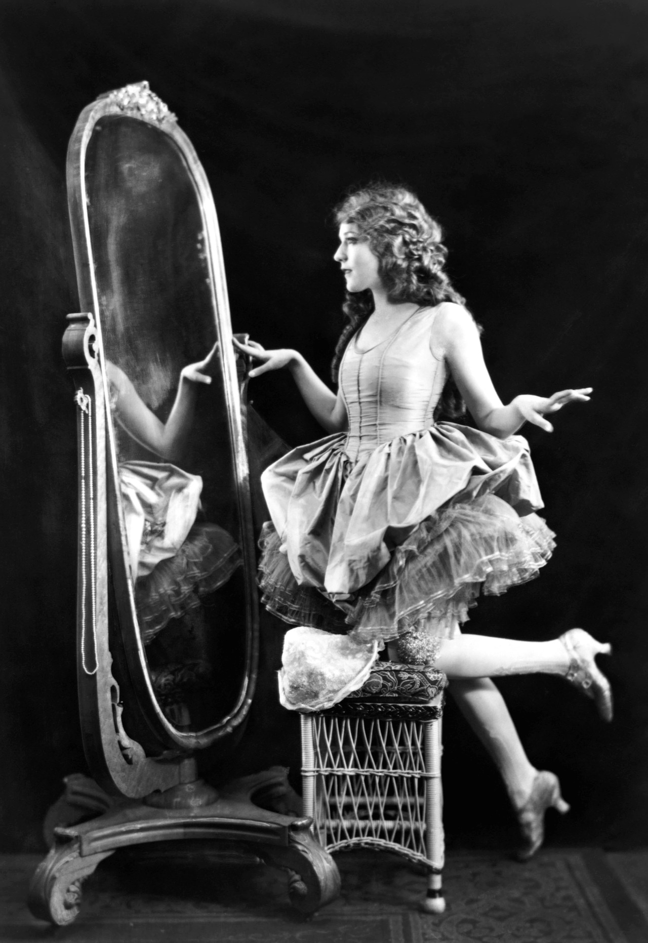 Hollywood Actress and co-founder of the United Artists studios, Mary Pickford, full length, facing left; kneeling on chair in front of mirror.